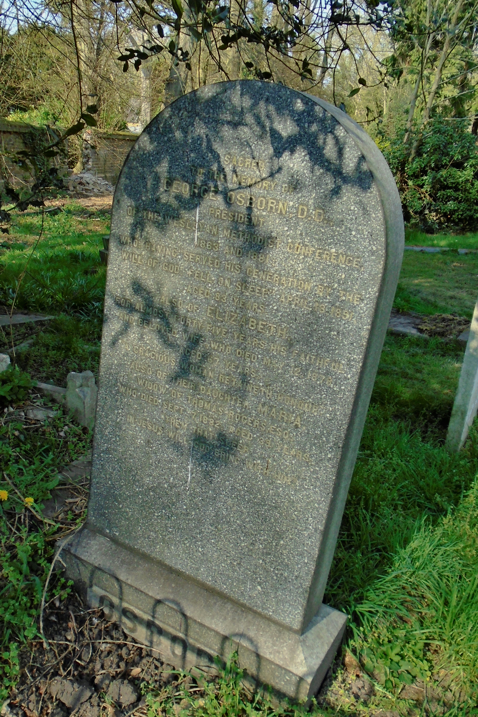 Richmond Cemetery, George Osborn headstone (1808–1891). President of the Wesleyan Methodist Conference in 1863 and 1881.